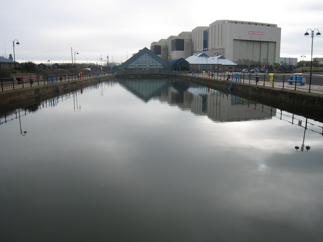 Graving Dock, Dock Museum, Barrow Island